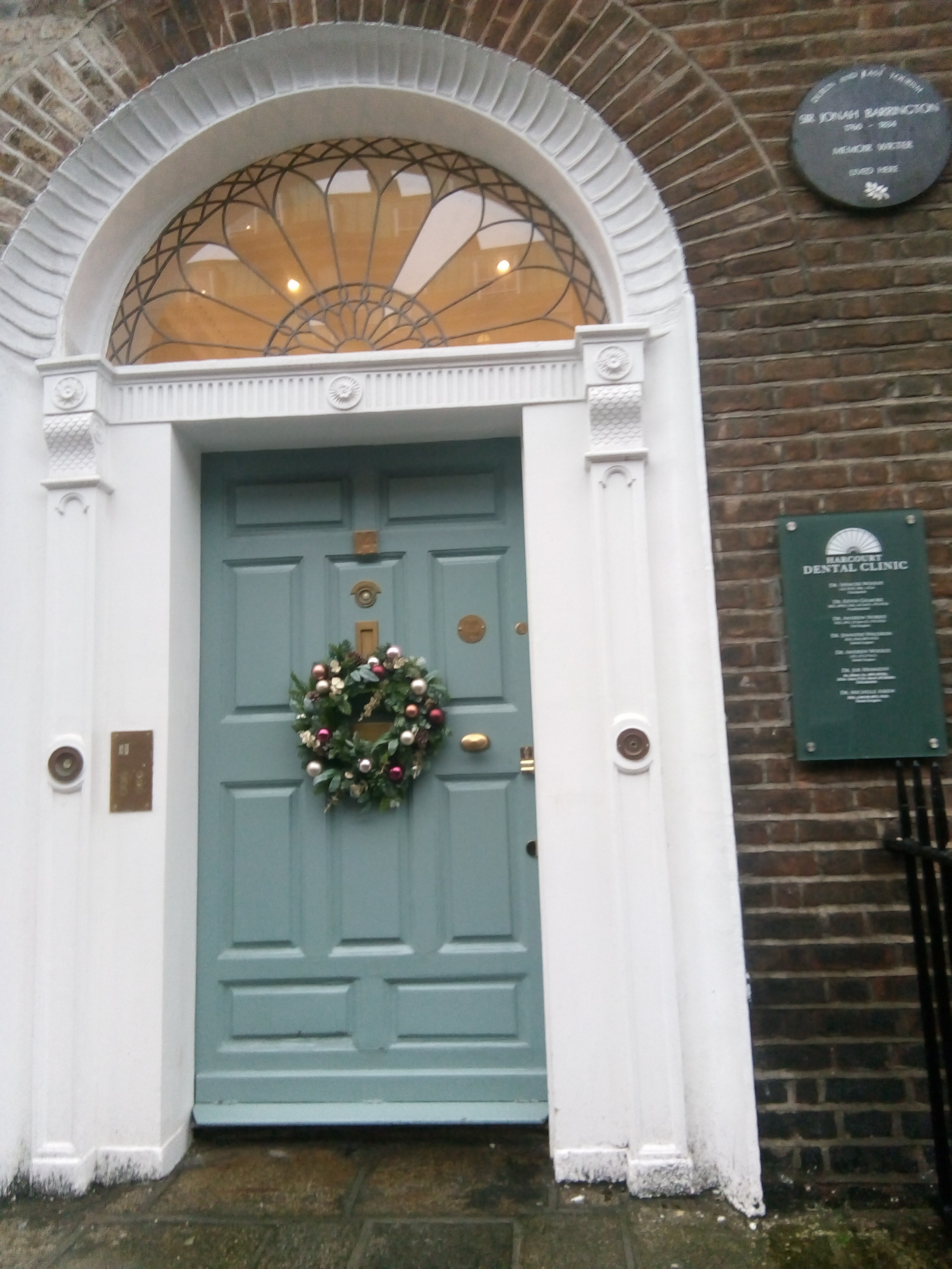 Birthplace doorway in Dublin